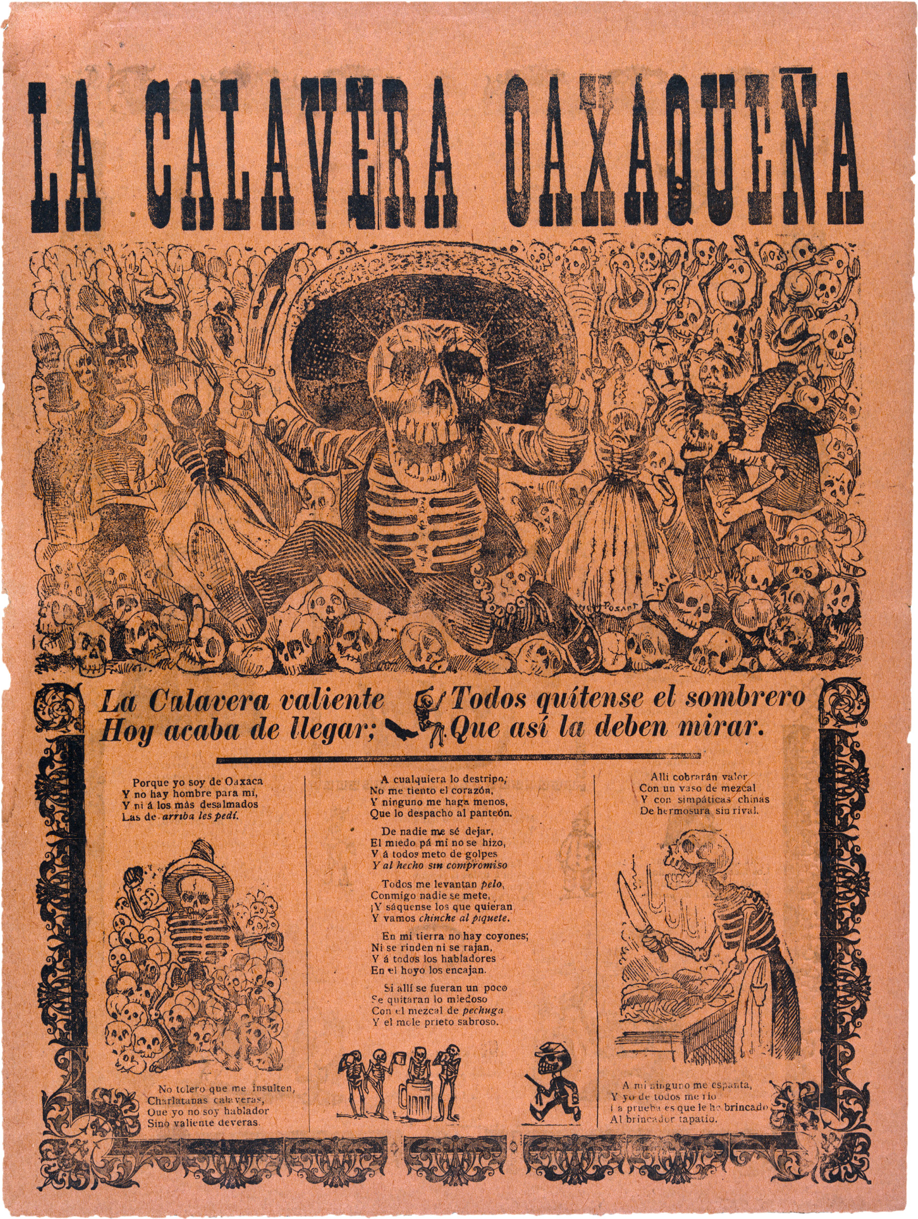 Calavera oaxaqueña by José Guadalupe Posada. Print shows a male skeleton dressed in a charro outfit wielding a machete among skulls and skeletons. Includes song lyrics and cartoon skeleton figures. Calaveras (skulls) are connected with the Mexican Día de los Muertos, and Posada was the acknowledged master of the imagery of calaveras. This image is named Calavera oaxaqueña (the skull from Oaxaca), likely after the rural get-up of the main figure.